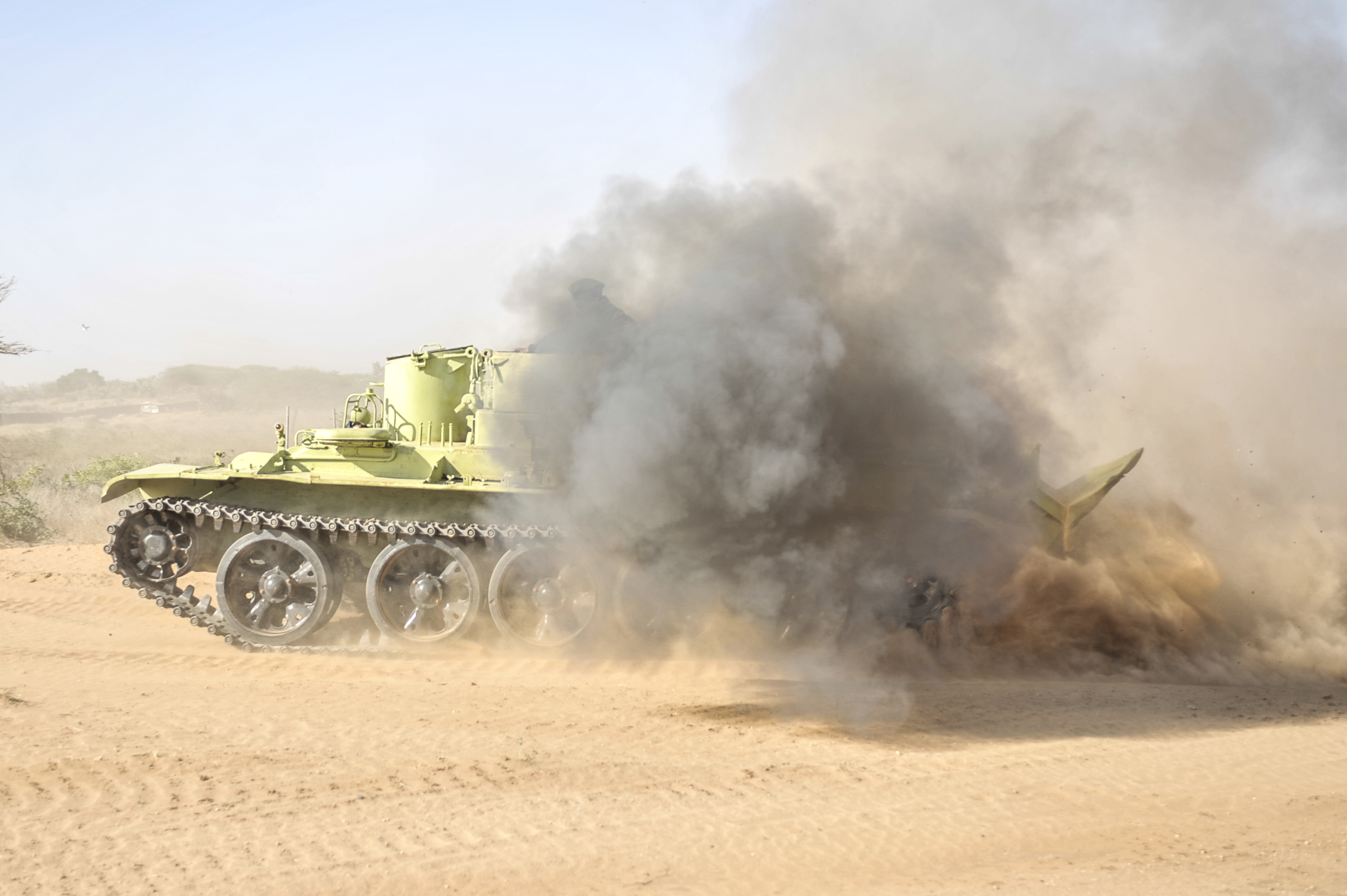 Tank driver Lance Corpral Napijja Catherine of the Uganda Peoples Defence Forces kicks up dust in her utility tank. AU/UN IST PHOTO / David Mutua